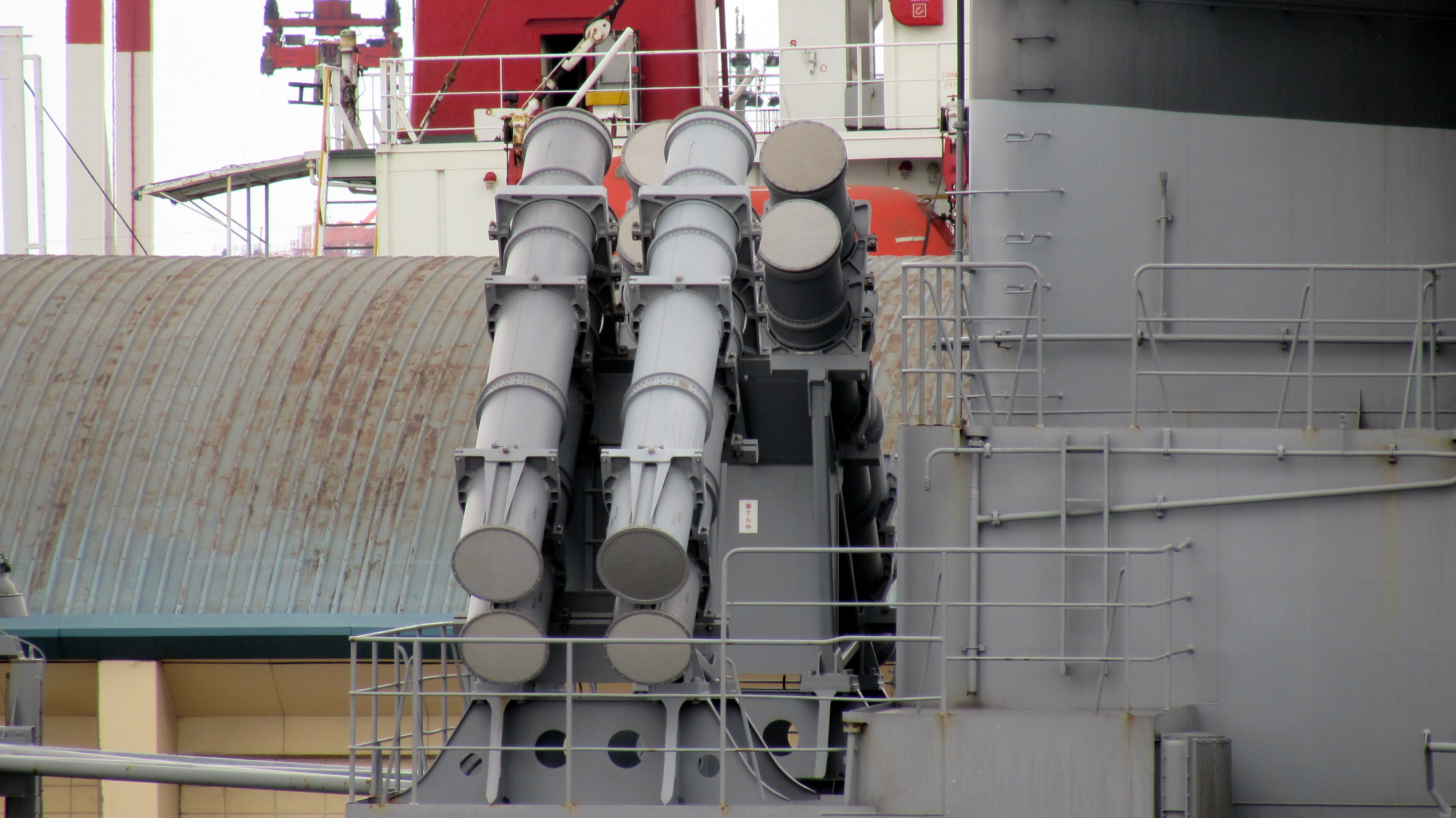 The Mk-141 Launchers for the RGM-84 Harpoon Missiles of the JS Amagiri (DD-154), the lead ship of the Asagiri class Destroyer of the Japanese Maritime Self Defense Force (JMSDF) . Photo taken at the Manila South Harbor.